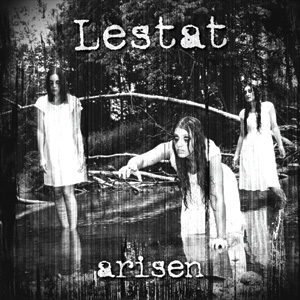 This is the official cover art for Lestat's 2012 release "Arisen"